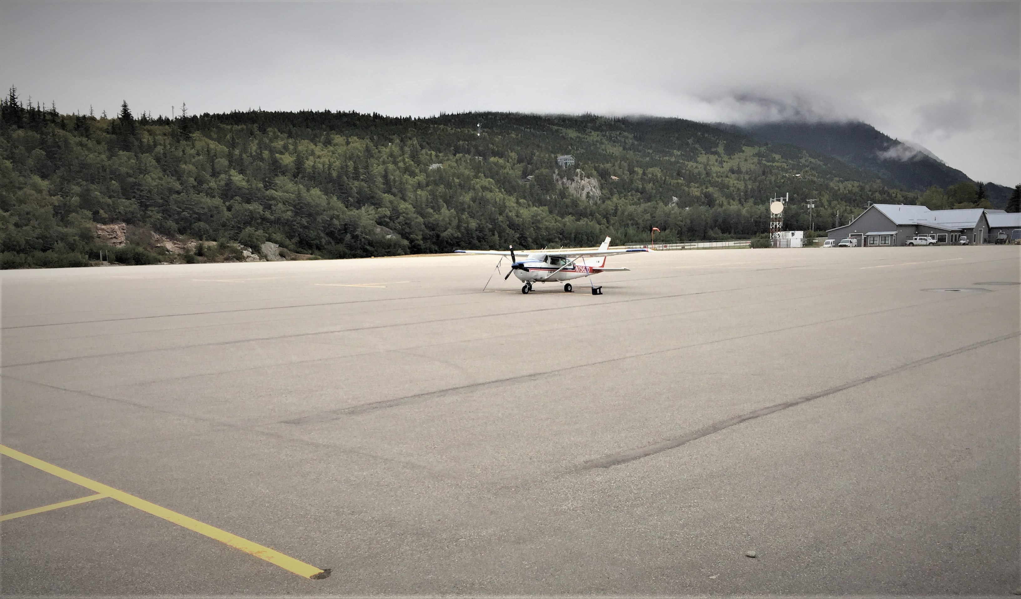 Apron of Skagway Airport, Alaska, USA. On the apron is a Piper PA-18A 150 registered N7562D.